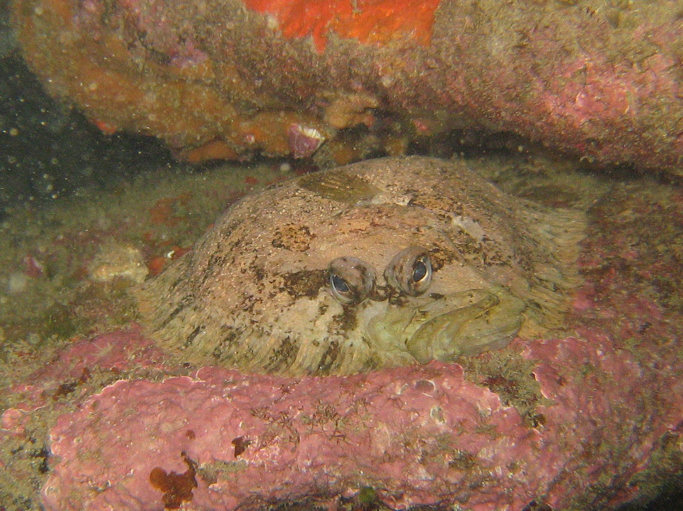 Female Zeugopterus punctatus in Carantec.